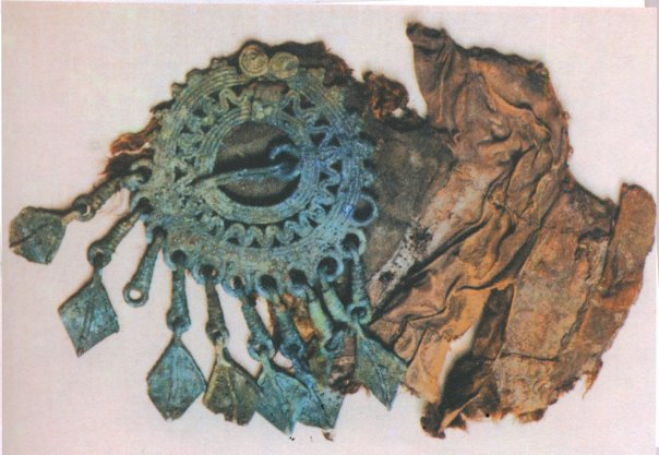 Breast metal ornament